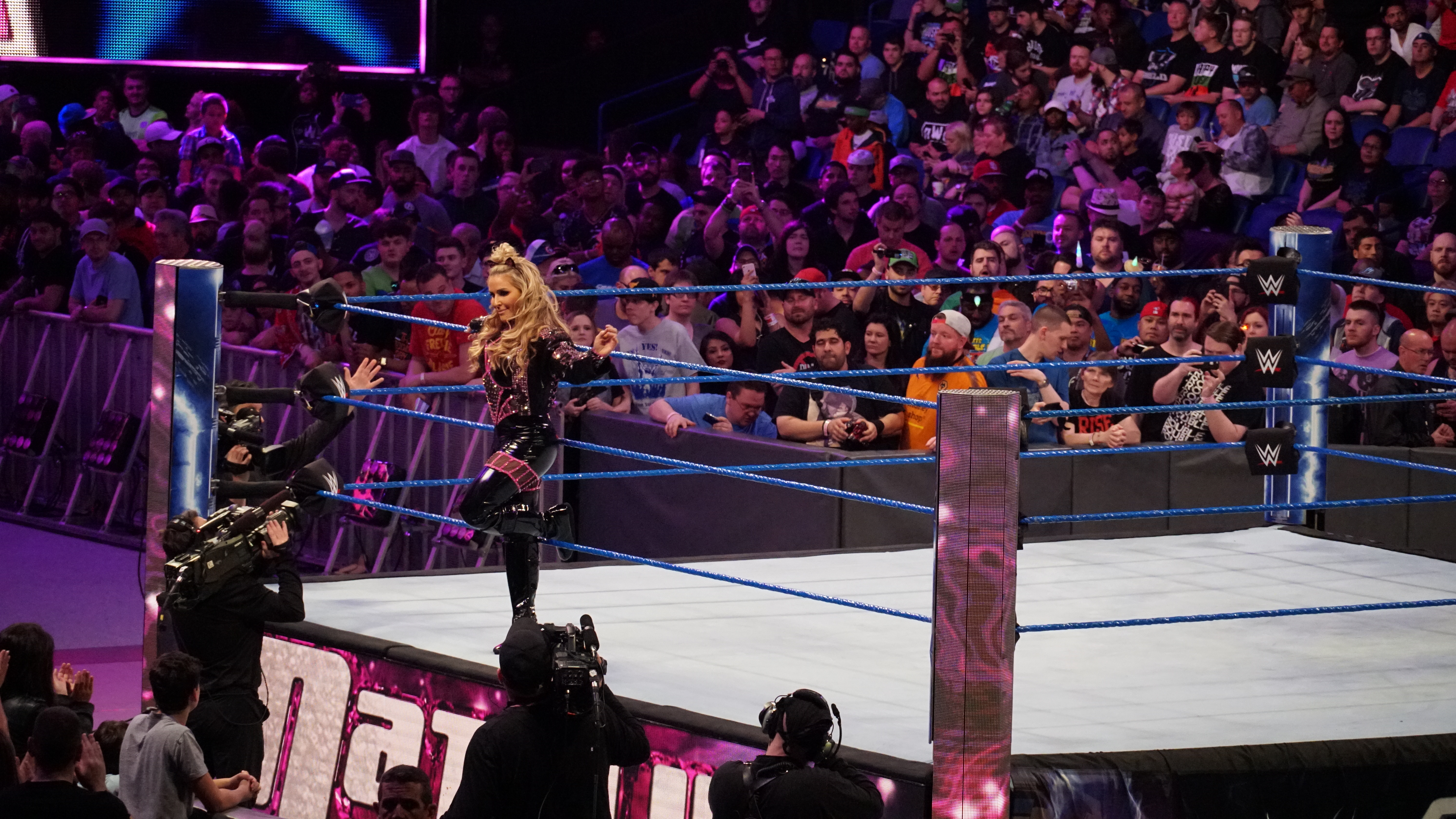 NOLA 2018 - WWE Smackdown Live - Naomi Vs Natalya Naomi def. (pin) Natalya (in 07:30) ( Deux semaines a Nola pour la ville et pour WWE Wrestlemania XXXIV Two weeks Nola for the city and for WWE Wrestlemania XXXIV )